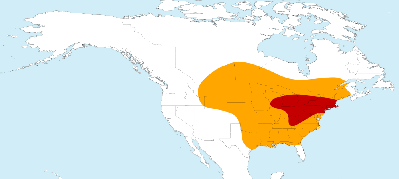 Distribution map of the Passenger Pigeon (Ectopistes migratorius). In orange: normal zone. In red: breeding zone.